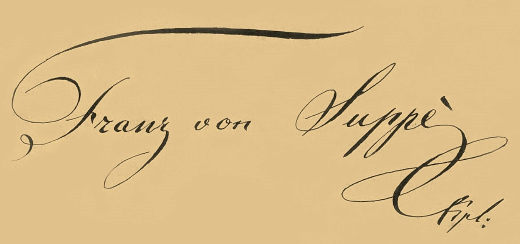 Signature from Franz von Suppè 1819–1895), Austrian composer and conducter.